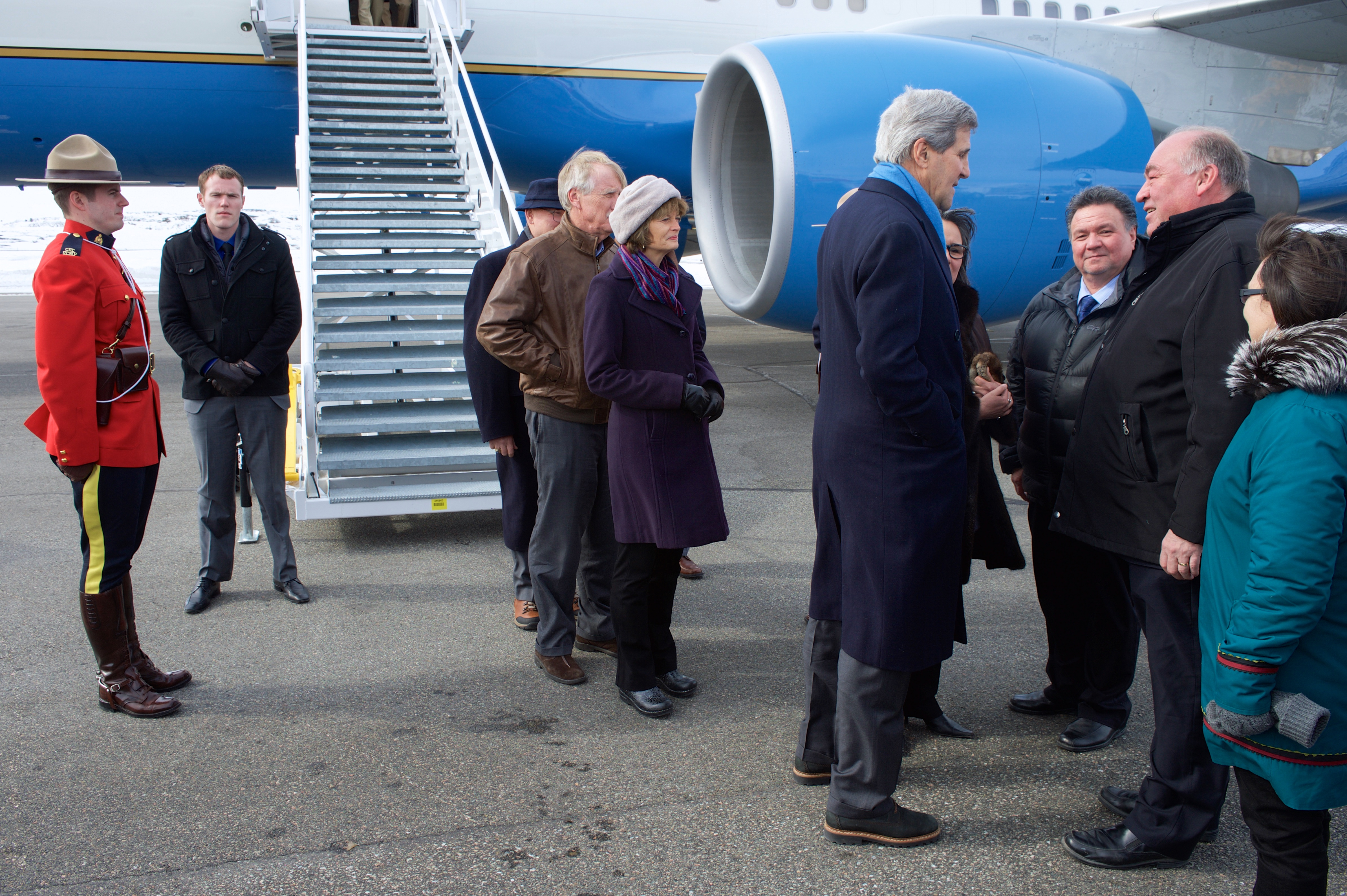 U.S. Secretary of State John Kerry chats with Arctic Council Chairman Leona Aglukkaq, Nunavut Territory Premier Peter Taptuna, and Northwest Territory Premier Robert McLeod in Iqaluit, Canada, on April 24, 2015, after arriving for a meeting just below the Arctic Circle of the Arctic Council, whose chairmanship the United States will assume the next two years. [State Department Photo/Public Domain]